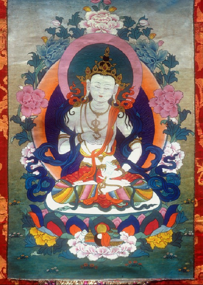 Vajrasattva with vajra and bell, Tibet 19th century.